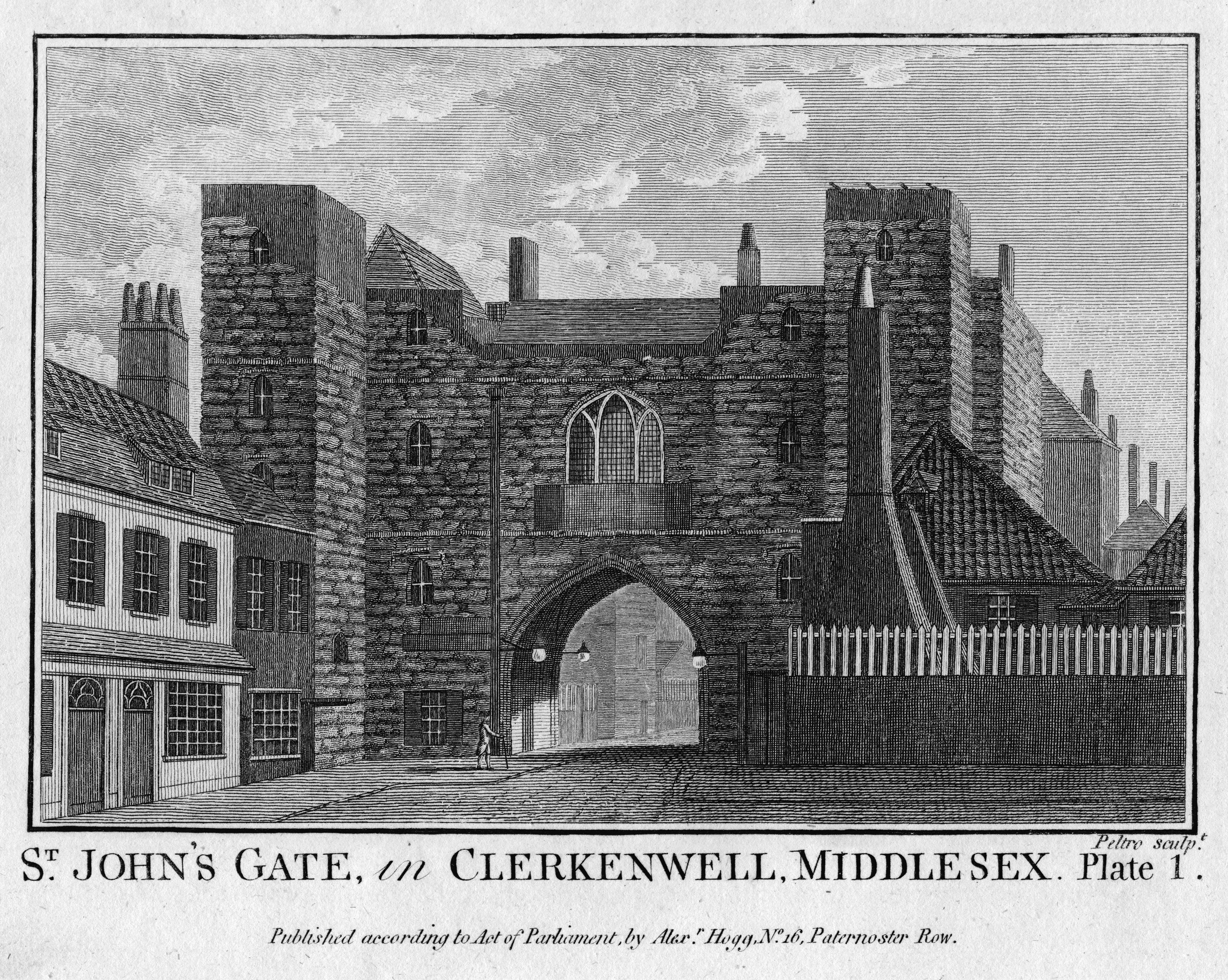 St John's Gate, Clerkenwell, Middlesex, remnant of the extensive headquarters of the Order of St John in England, dissolved by King Henry VIII during the Dissolution of the Monasteries.